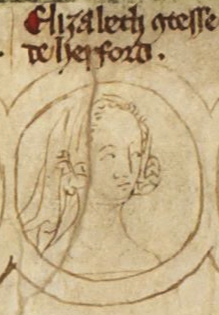 Elizabeth of Rhuddlan with her brother